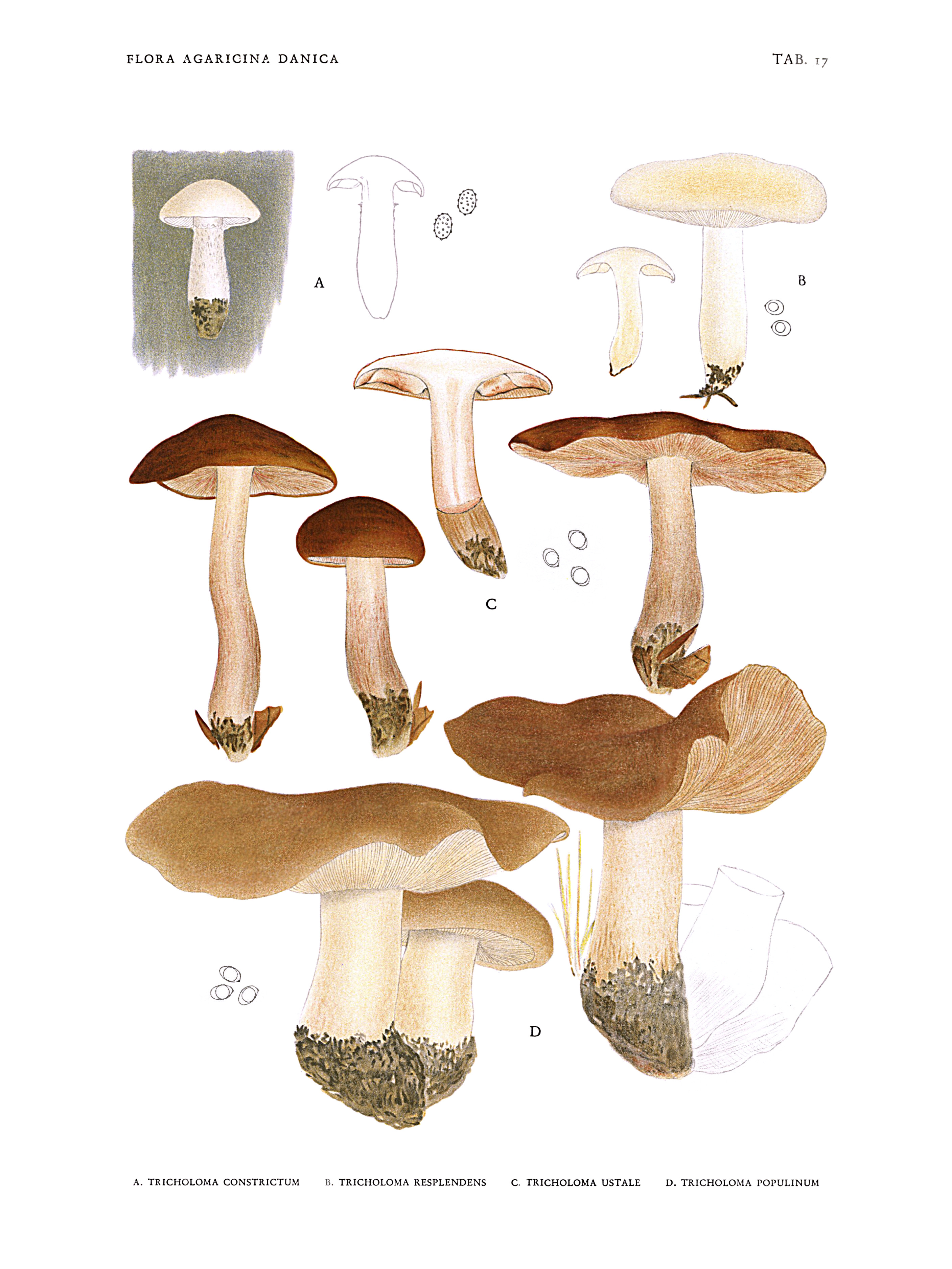 Jakob E. Lange: Flora agaricina Danica. Vol. 1; TAB. 17 A. Calocybe constricta as Tricholoma constrictum B. Tricholoma sulphurescens as Tricholoma resplendens C. Tricholoma ustale D. Tricholoma populinum